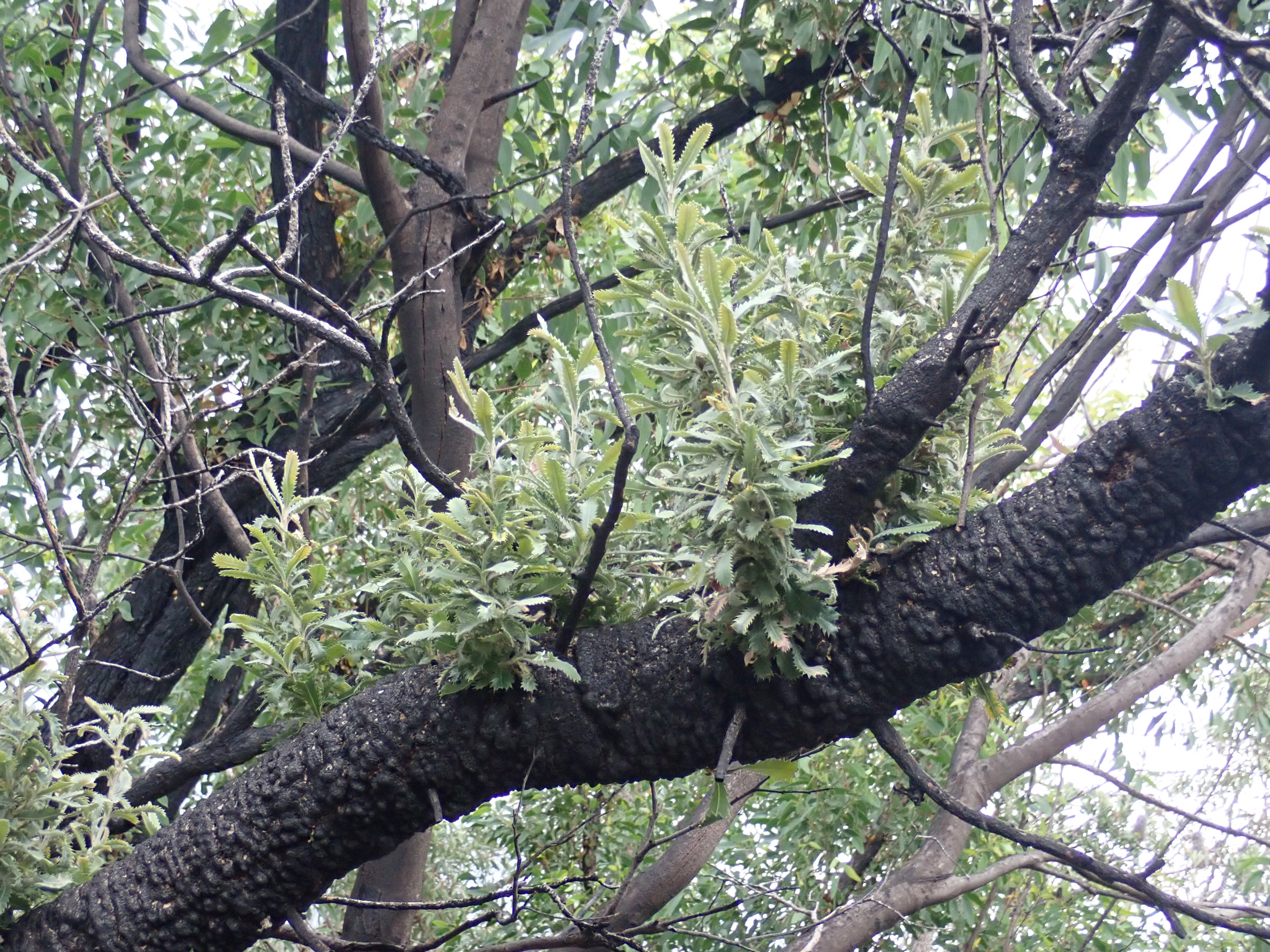 Banksia serrata, epicormic regrowth after bushfire. At the entrance to the Elvira Bay Track, Ku-ring-gai National Park.